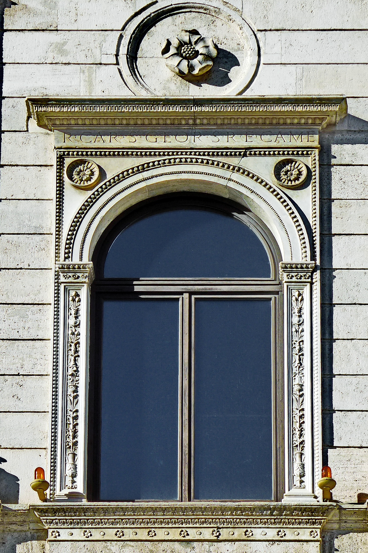 Window frame; Palazzo della Cancelleria, Rome